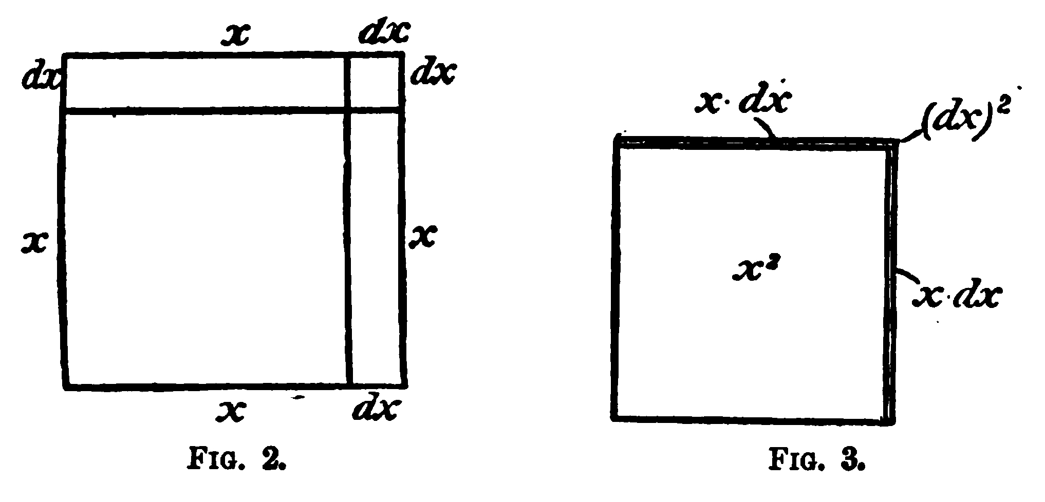 Calculus Made Easy by Silvanus Phillips Thompson, Fig. 2 & 3